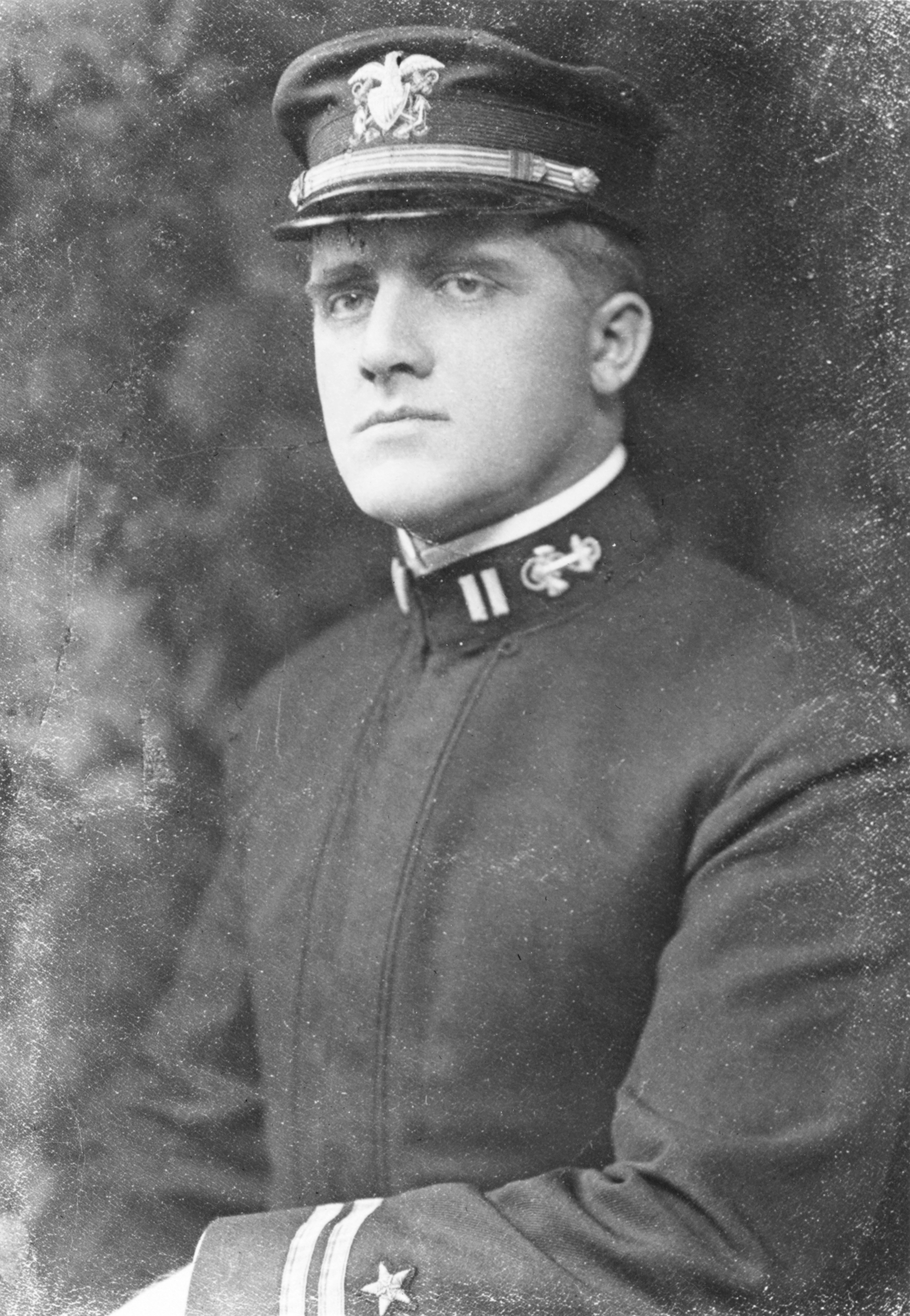 Lieutenant Guy W. S. Castle, USN, who was awarded the Medal of Honor for "distinguished conduct in battle" during the intervention at Vera Cruz, Mexico, 21-22 April 1914.